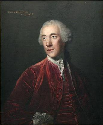 Robert Darcy, 4th Earl of Holderness